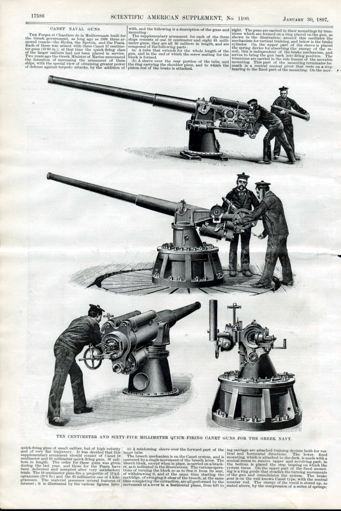 10 cm and 6.5 cm Canet naval guns installed on the Greek Hydra-class ironclads after 1895.